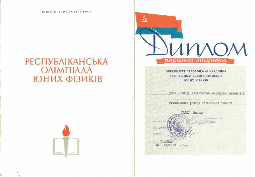 Diploma of 1 degree of Republican competition of young physicists in Vinnitsa, 1975, Nicholas Gazda, Klevan SSch№1